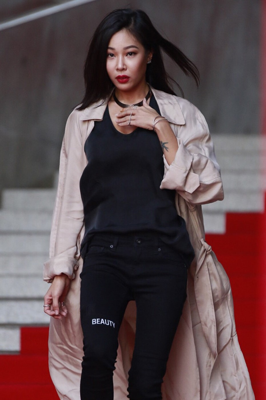 Jessi at the Seoul Fashion Week on March 24, 2016.